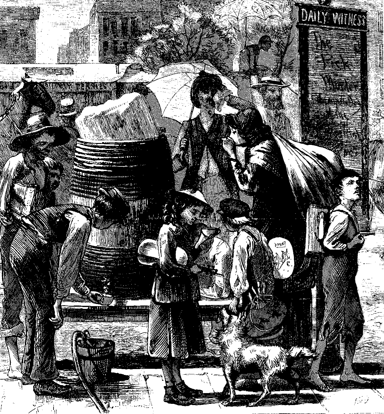 1872 depiction of distributing iced water